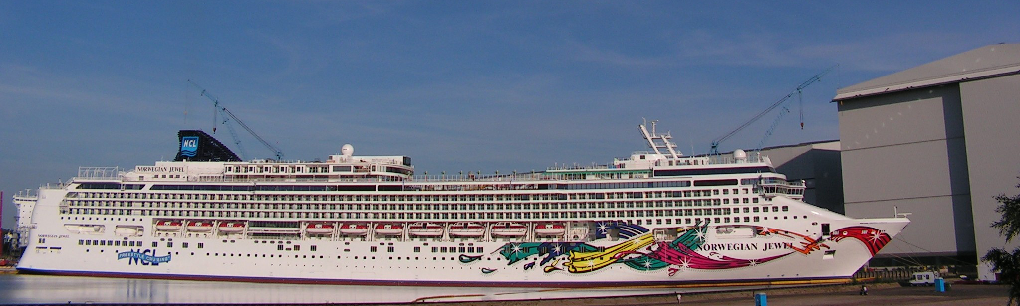 Norwegian Jewel in front of the 70 meter tall Meyerwerft Hall